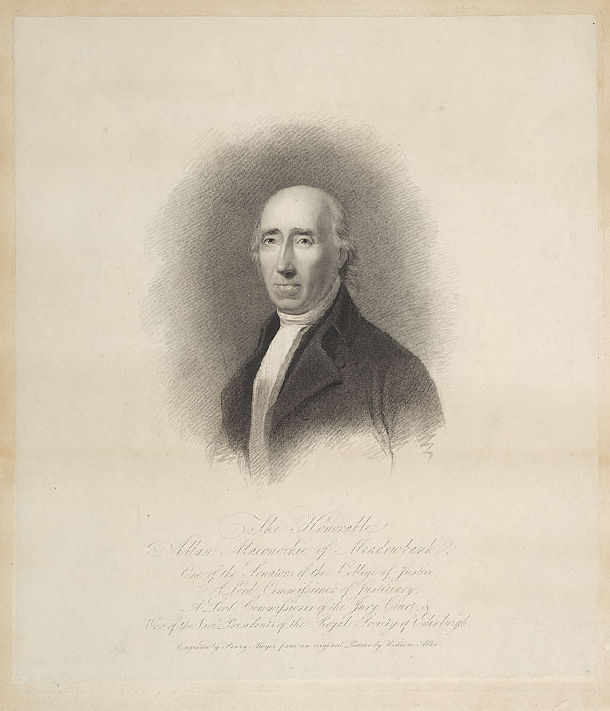 Alexander Maconochie, Lord Meadowbank (1777-1861)